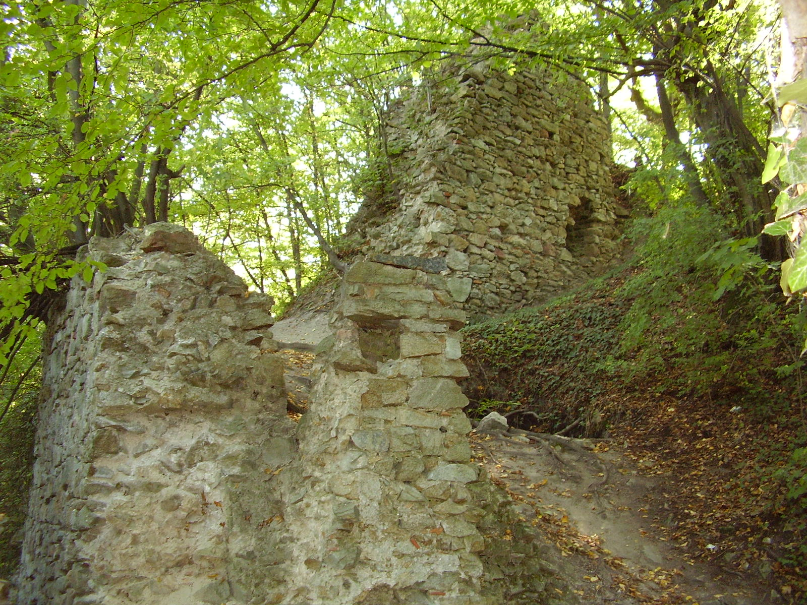 Slovakia, ruins of the Biely Kamen castle This medium shows the protected monument with the number 107-431/1 (other) in the Slovak Republic.